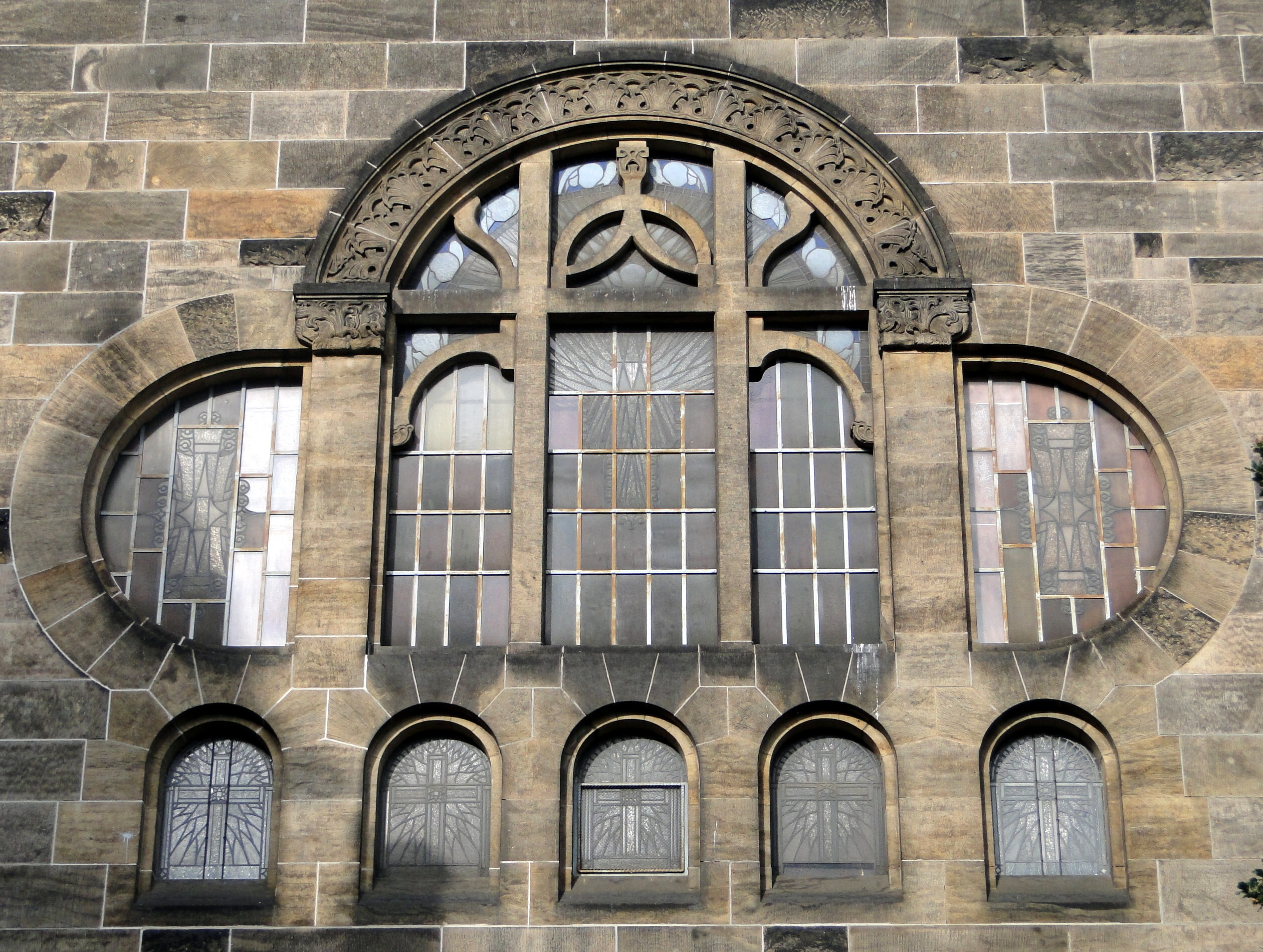 Church "Versöhnungskirche" in Dresden, the gable end of narve (Saxony, Germany)